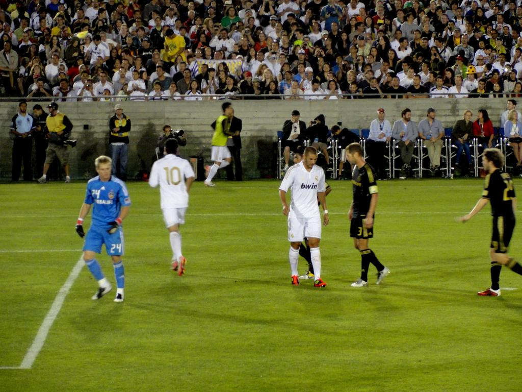 Karim Benzema and Mesut Özil playing for Real Madrid C.F. against Los Angeles Galaxy.